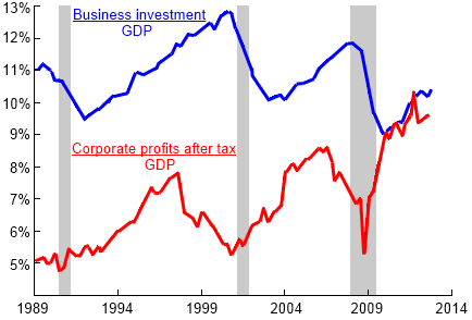 Red: U.S. corporate profits after tax and inventory valuation adjustment. Blue: nonresidential fixed investment (i.e., business investment), both as fractions of GDP, 1989-2012. Shaded areas indicate U.S. recessions.